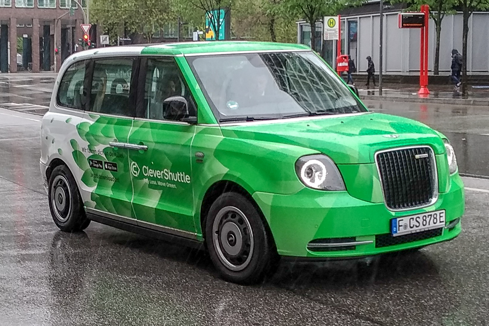 CleverShuttle LEVC TX eCity in Hamburg